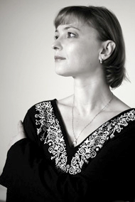 Prima ballerina of the Serbian National Theatre Srpski (latinica): Prvakinja Baleta Srpskog narodnog pozorišta Српски (ћирилица): Првакиња Балета Српског народног позоришта